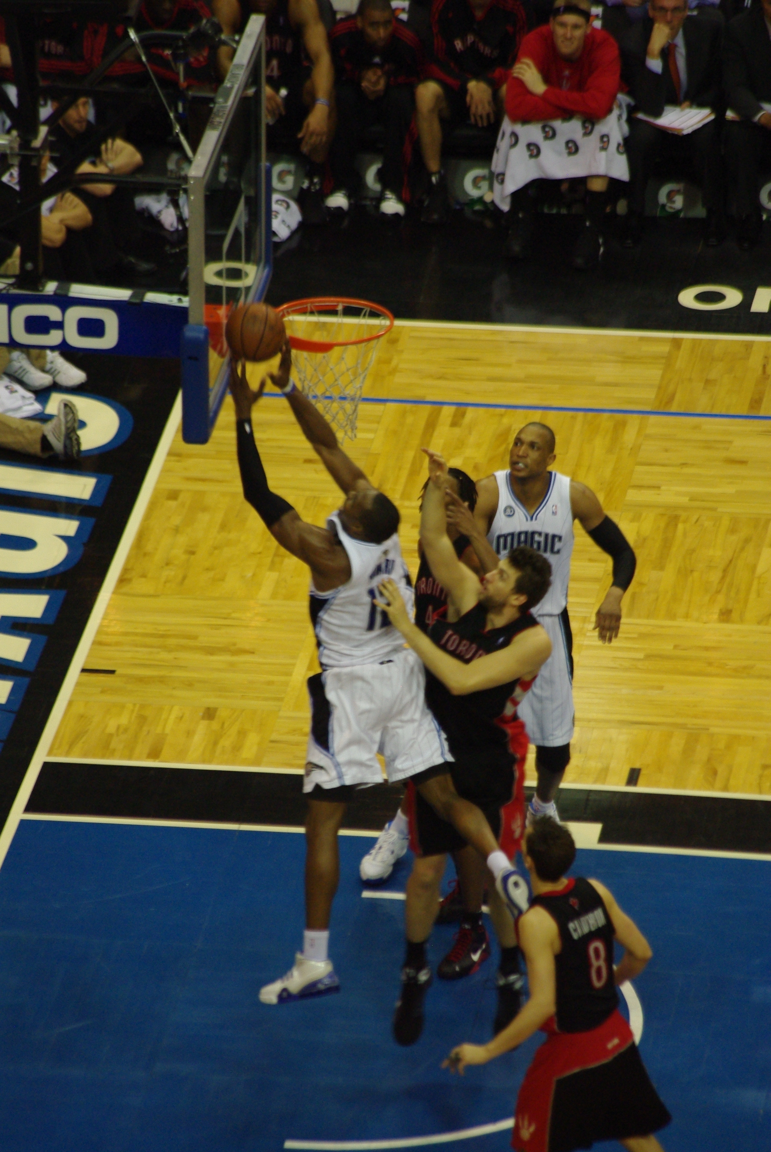 Dwight Howard Fights for Two Points